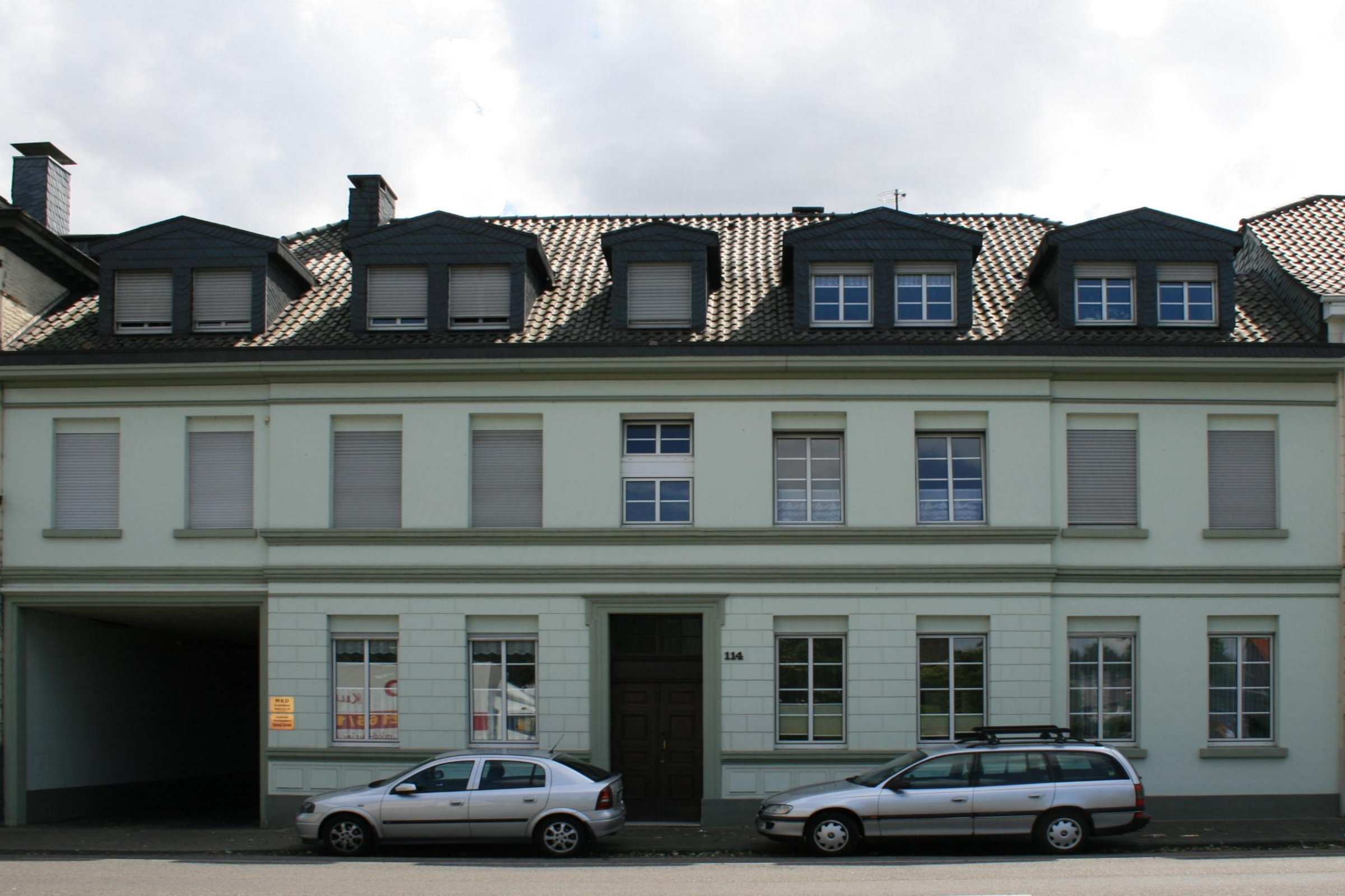 Cultural heritage monument No. D 004 in Mönchengladbach